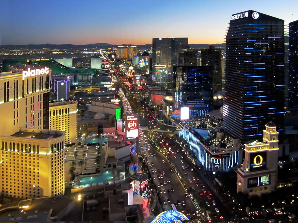 Las Vegas Boulavard South (The Strip) as seen from the Eiffel Tower at Paris Las Vegas.